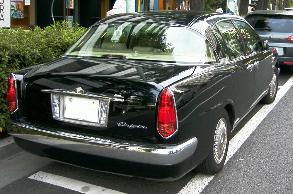 “Toyota Origin” ToyotaOrigin,releases it in November, 2000 Japan